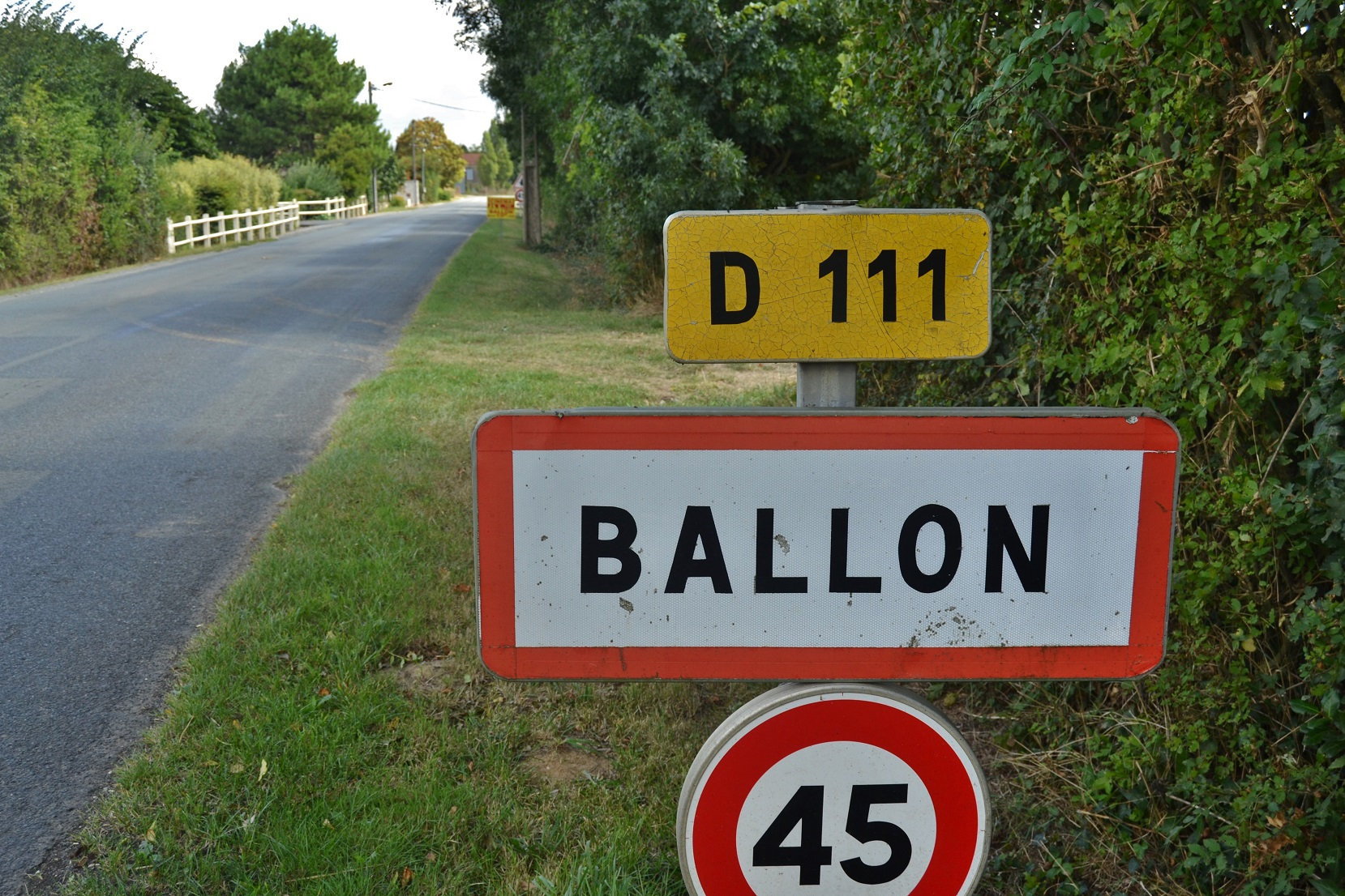 l'entrée du village